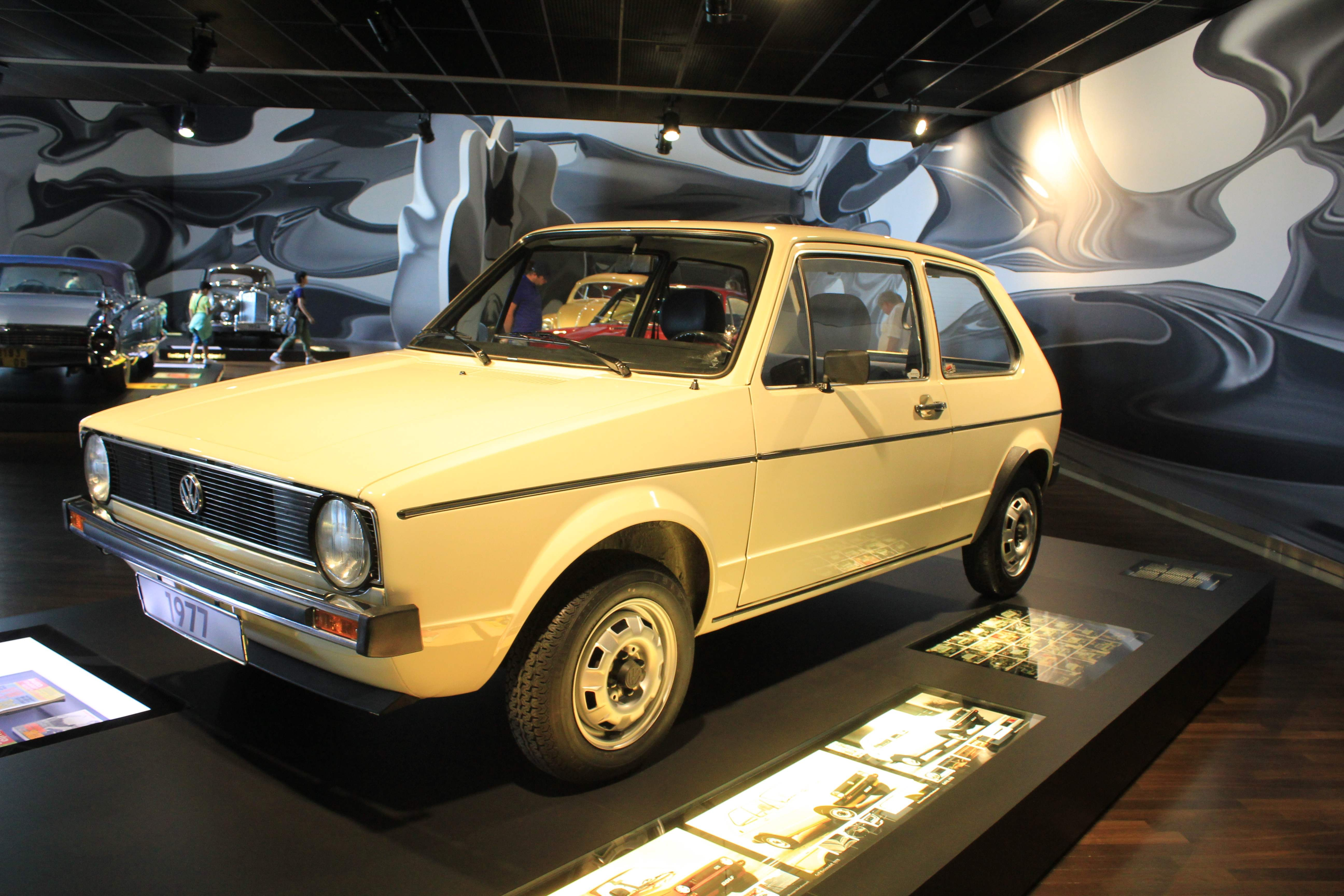 Autostadt, Wolfsburg Aug 2014